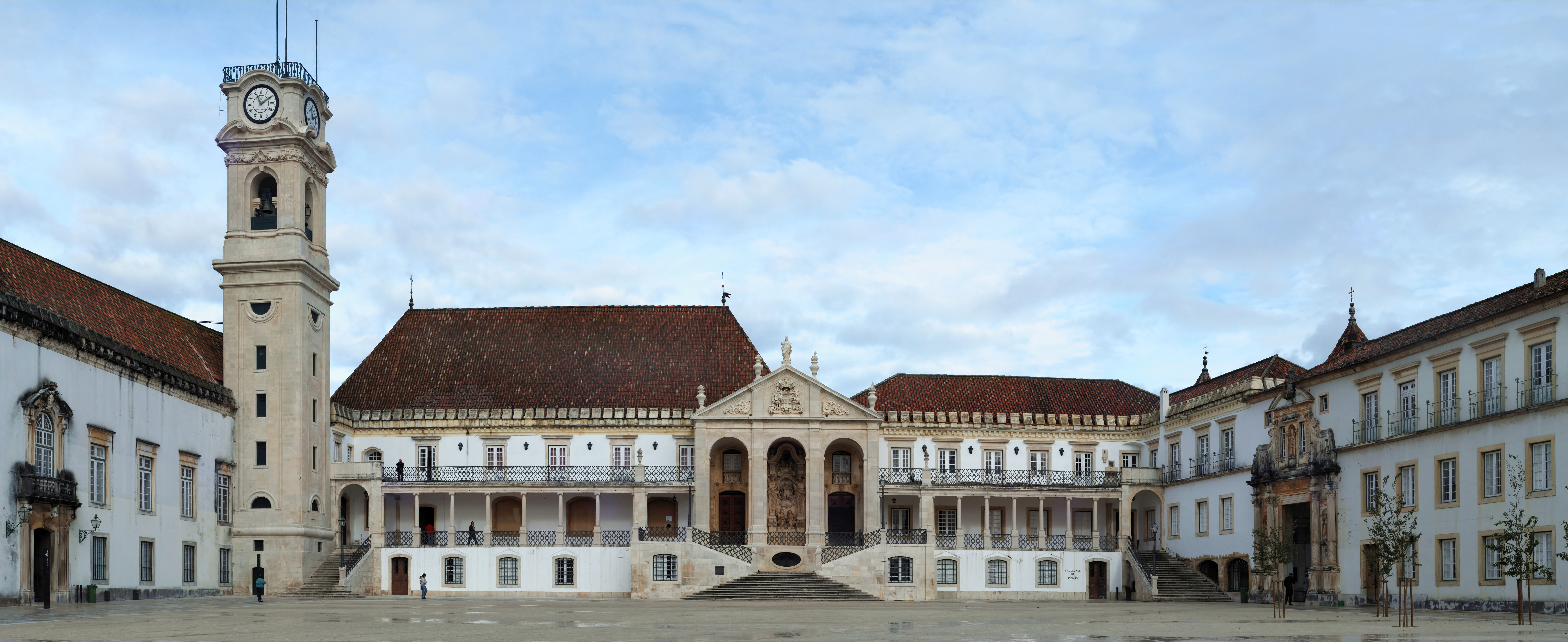 Court of the University of Coimbra, Portugal